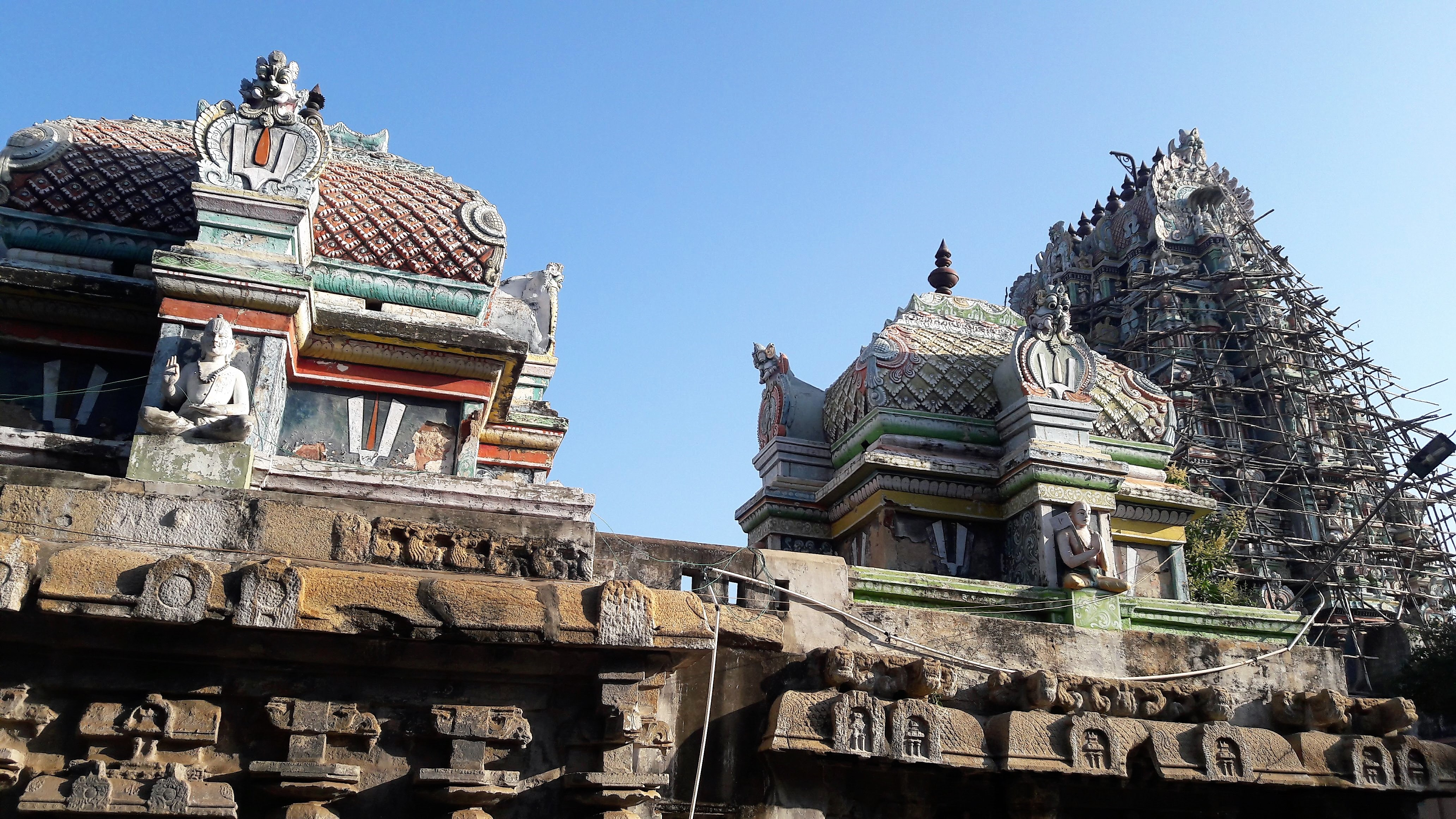 Sowmya Narayana Perumal, Thirukoshtiyur